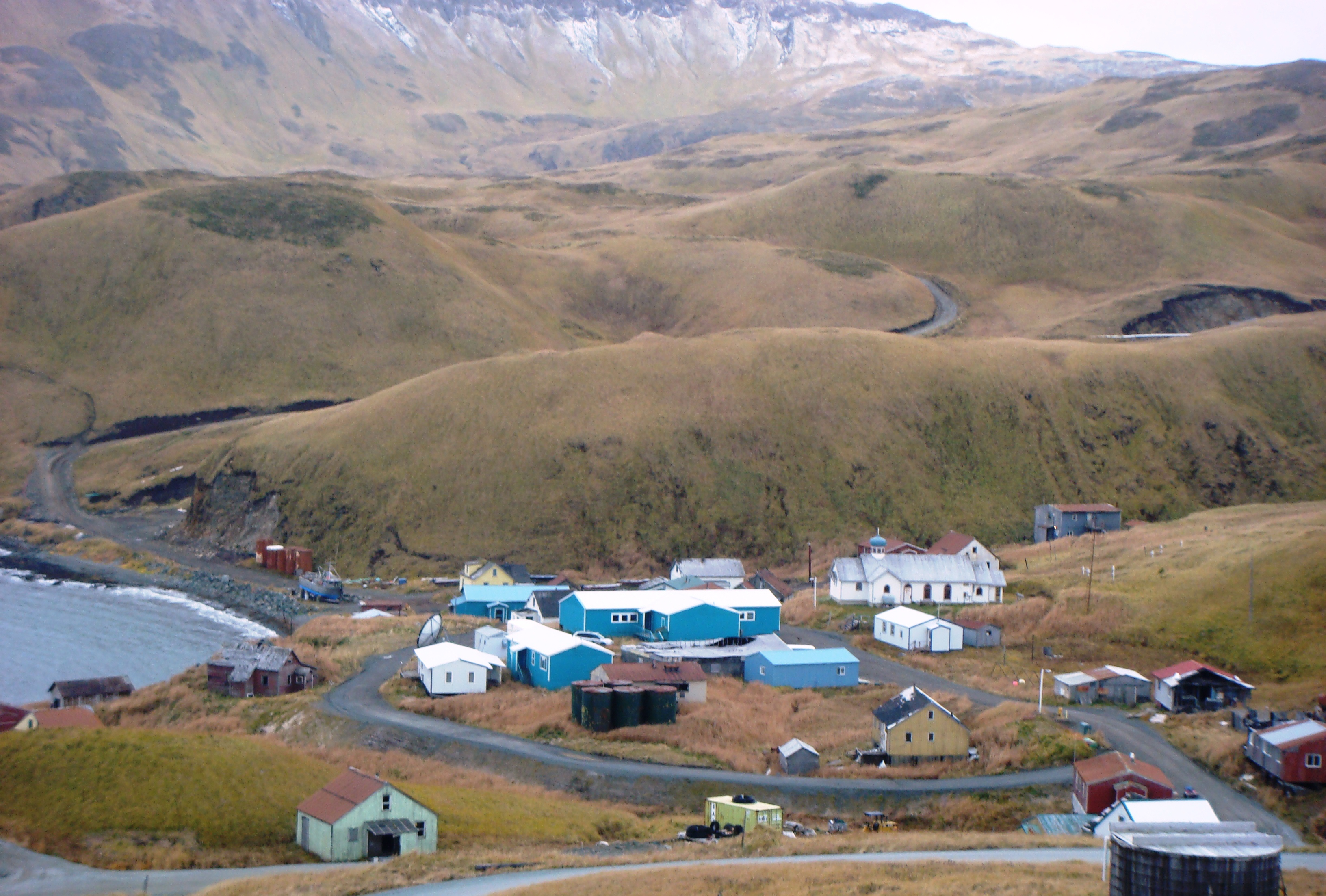 The older portion of the city of Atka located on Atka Island in the Aleutian Chain with St. Nicholas Orthodox Chapel in the background. The original church was destroyed during WWII, a new church was built in the 1950s, and rebuilt in 1996.